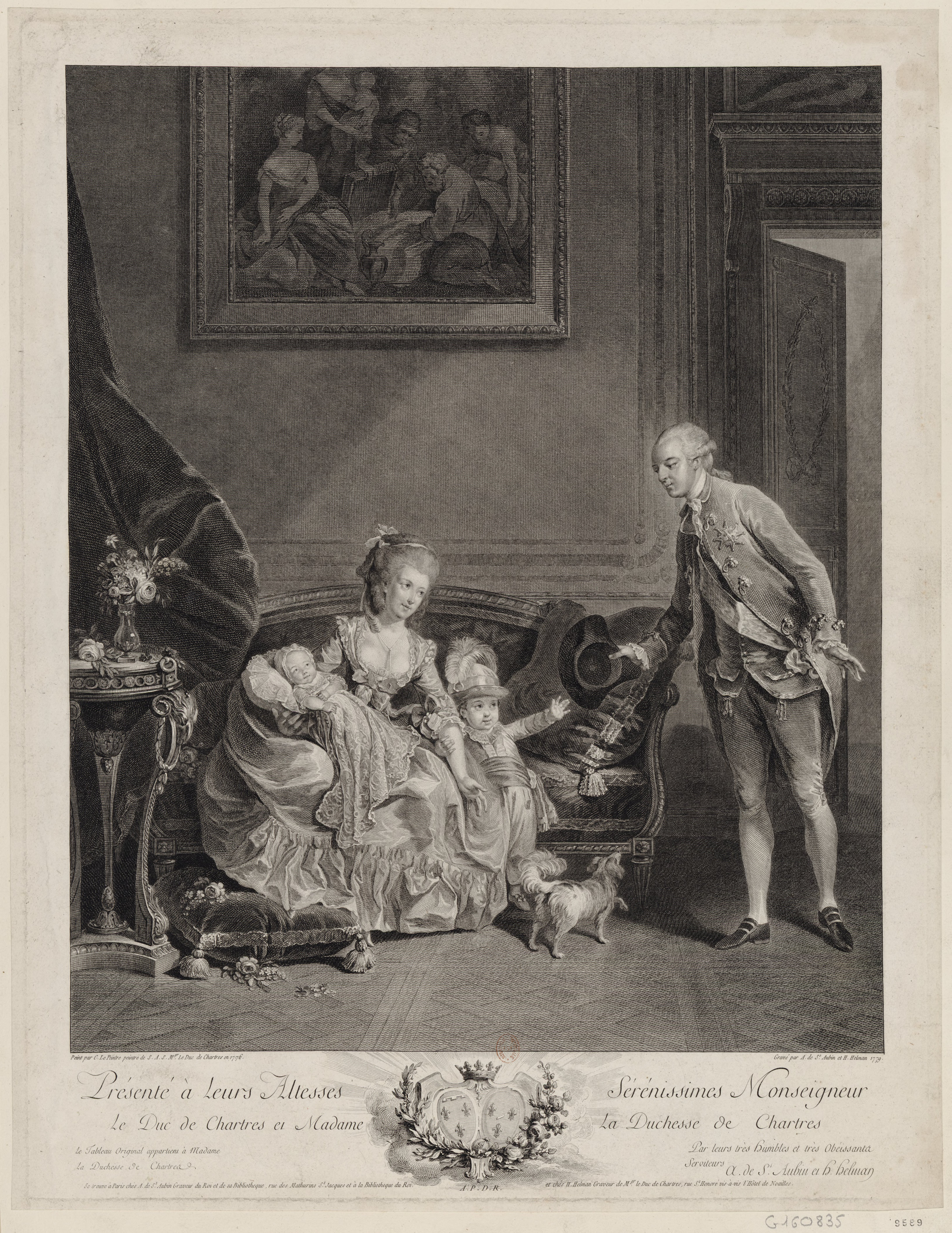 HSH The Duke of Chartres with his wife and their two eldest children